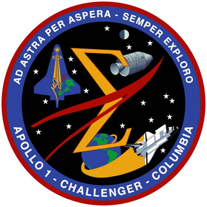 This emblem memorializes the three U.S. human space flight accidents – Apollo 1, Challenger, and Columbia. The words across the top translate to: “To The Stars, Despite Adversity – Always Explore“